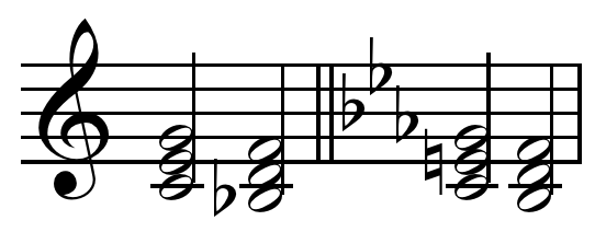 Created by Hyacinth (talk) 02:29, 12 March 2010 using Sibelius 5. ♭VII borrowed chord in C major.